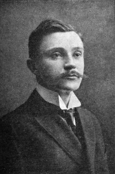 Otakar Theer in 1909